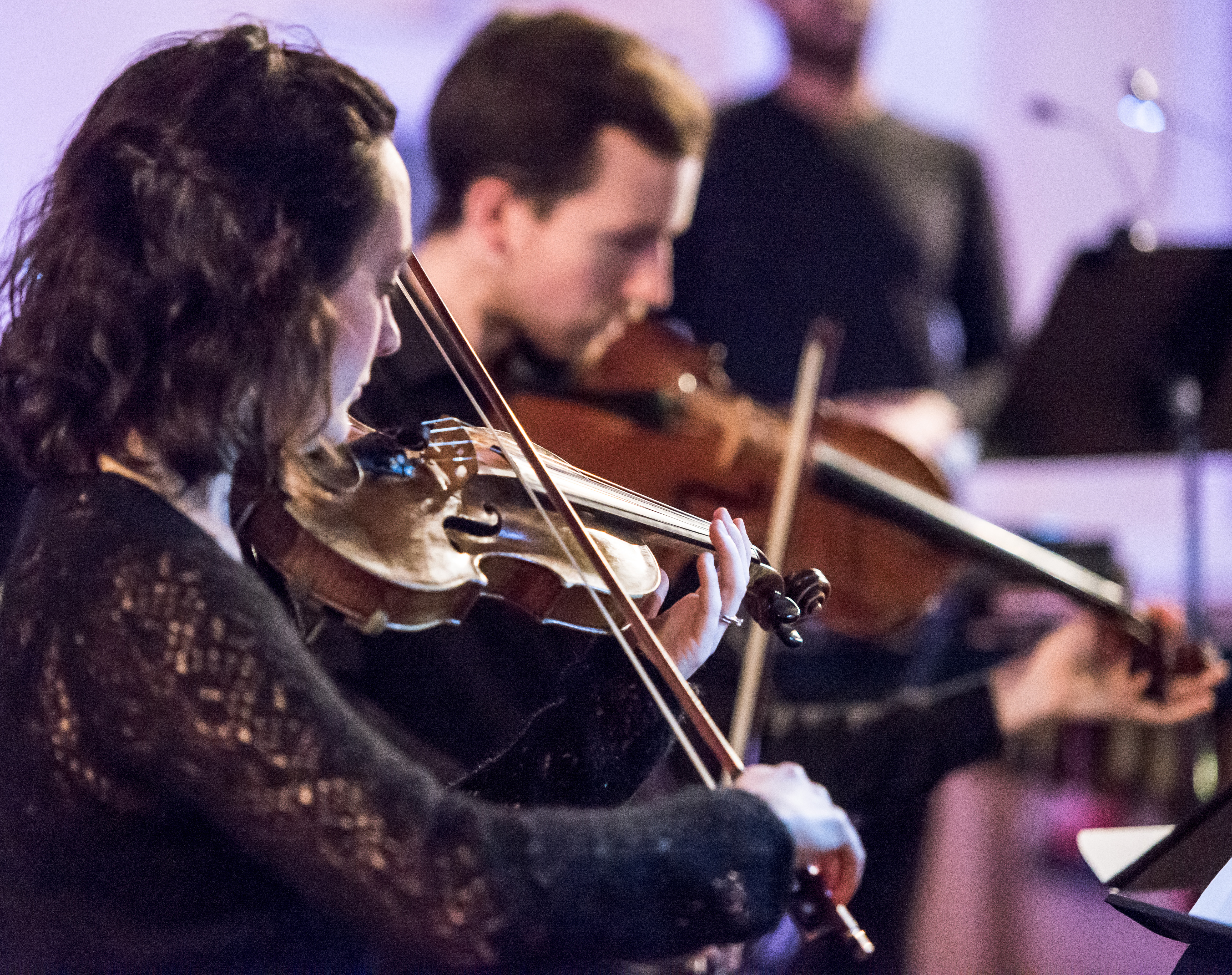 Manchester Camerata - To the Wider Ocean Salford Sonic Fusion Festival 2015, held at University of Salford